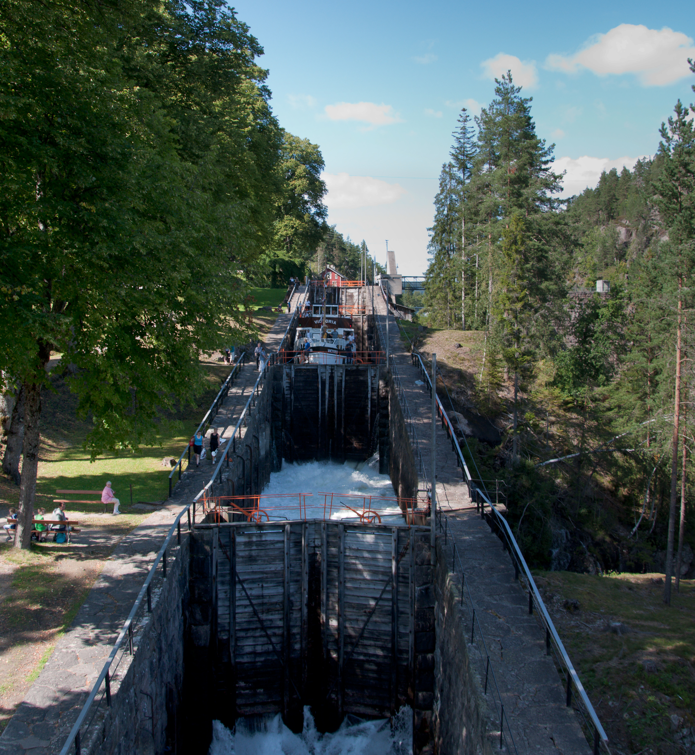 Vrangfoss Locks (Telemark Canal), Telemark, Norway, with MS «Victoria» on her way down